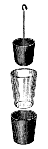 Drawing of a "dissectible" Leyden jar, from 1876 physics book. This experimental apparatus, invented by American statesman and scientist Benjamin Franklin, was used to illustrate an erroneous belief that the charge on a Leyden jar does not reside on the metal plates, but on the glass jar dielectric. The jar was assembled and charged with electricity. If the jar was then disassembled into its parts, it was found that the parts were not charged and could be handled without creating a spark. However, if the jar was then reassembled, a spark could be obtained between the inner and outer metal plates. This was supposed to show that the charge in Leyden jars, and all capacitors, is stored in the dielectric, not the metal plates. However, it is now known that this was a special effect caused by the high voltage on the Leyden jar. When the jar is disassembled, the charge is deposited on the glass by corona discharge. Handling does not remove much of the charge, so when the jar is reassembled there is enough left to cause a spark. In general the charge in capacitors such as Leyden jars is stored on the plates.